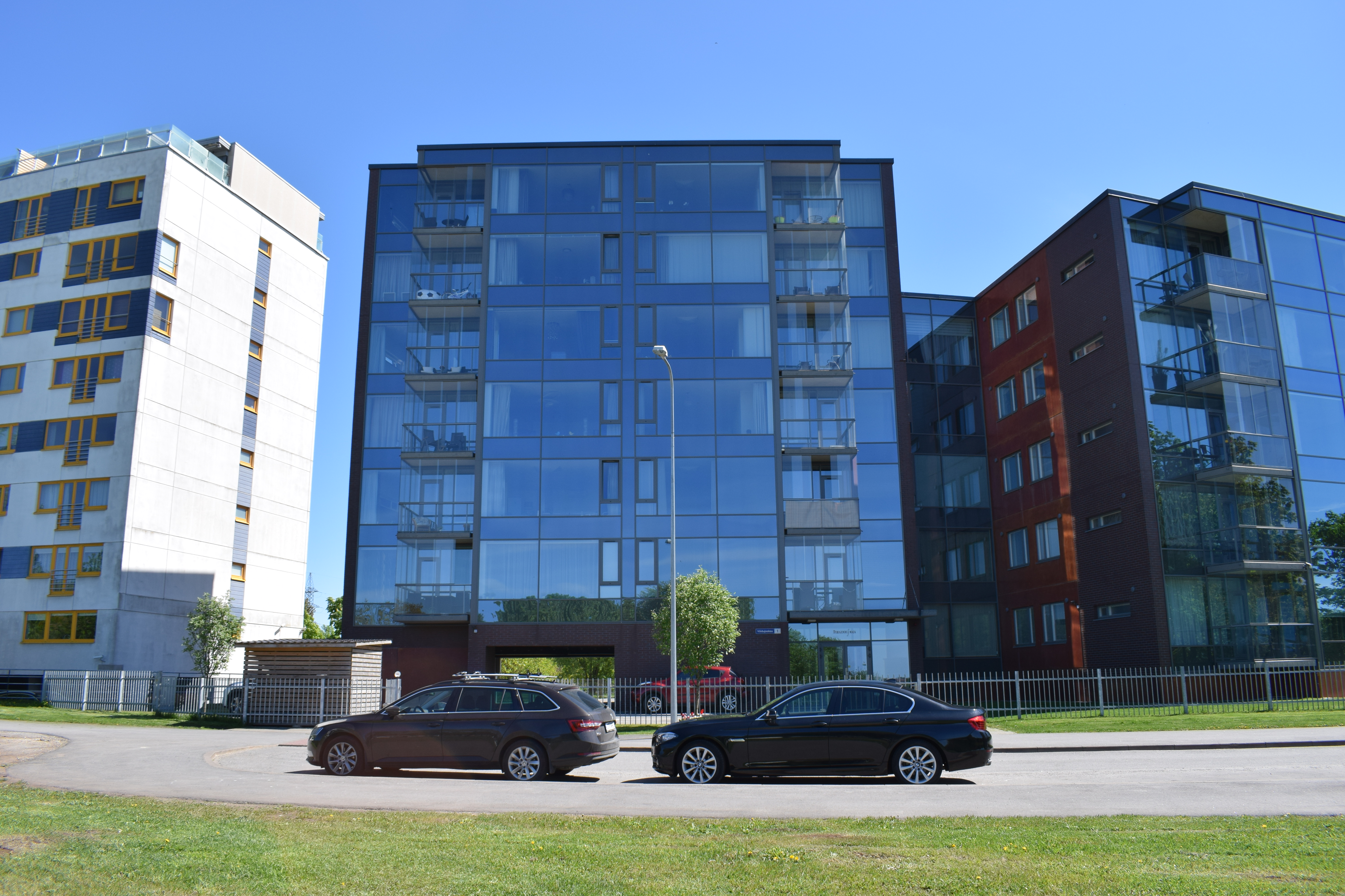 Võidujooksu 1